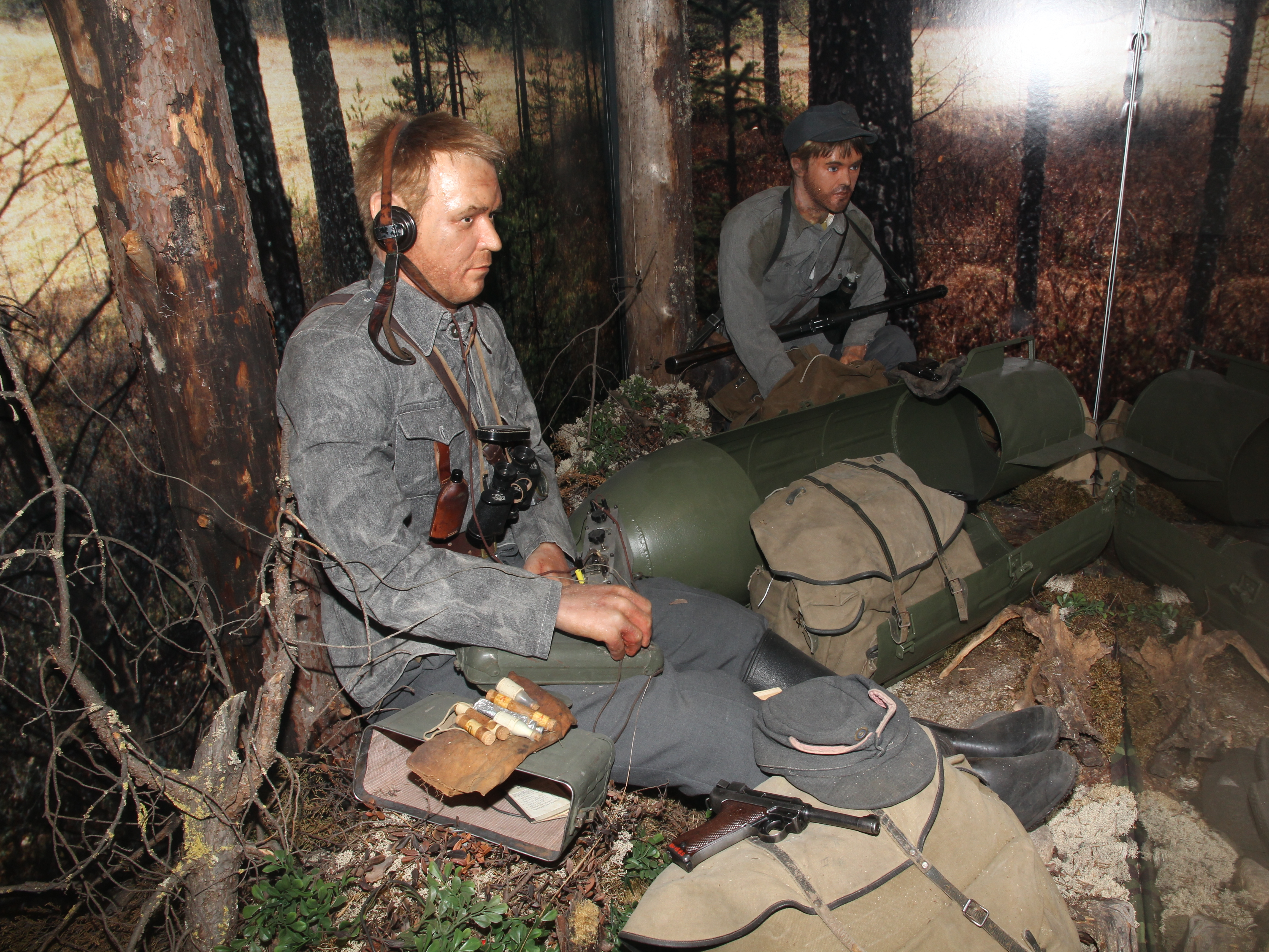 Museum reproduction of Finnish long-range reconnaissance patrol from the Continuation War with an air-dropped supply canister in Imatra Border Museum.